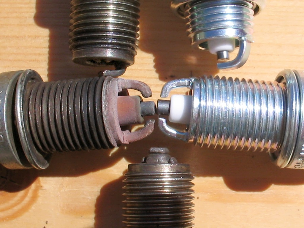 Several candles electrodes, which can be adjusted in a different way, the upper electrodes are noticed that can be adjusted using feeler gauge blade, the center electrodes which can be adjusted with a wire thickness gauge and bottom electrodes that can not be adjusted.